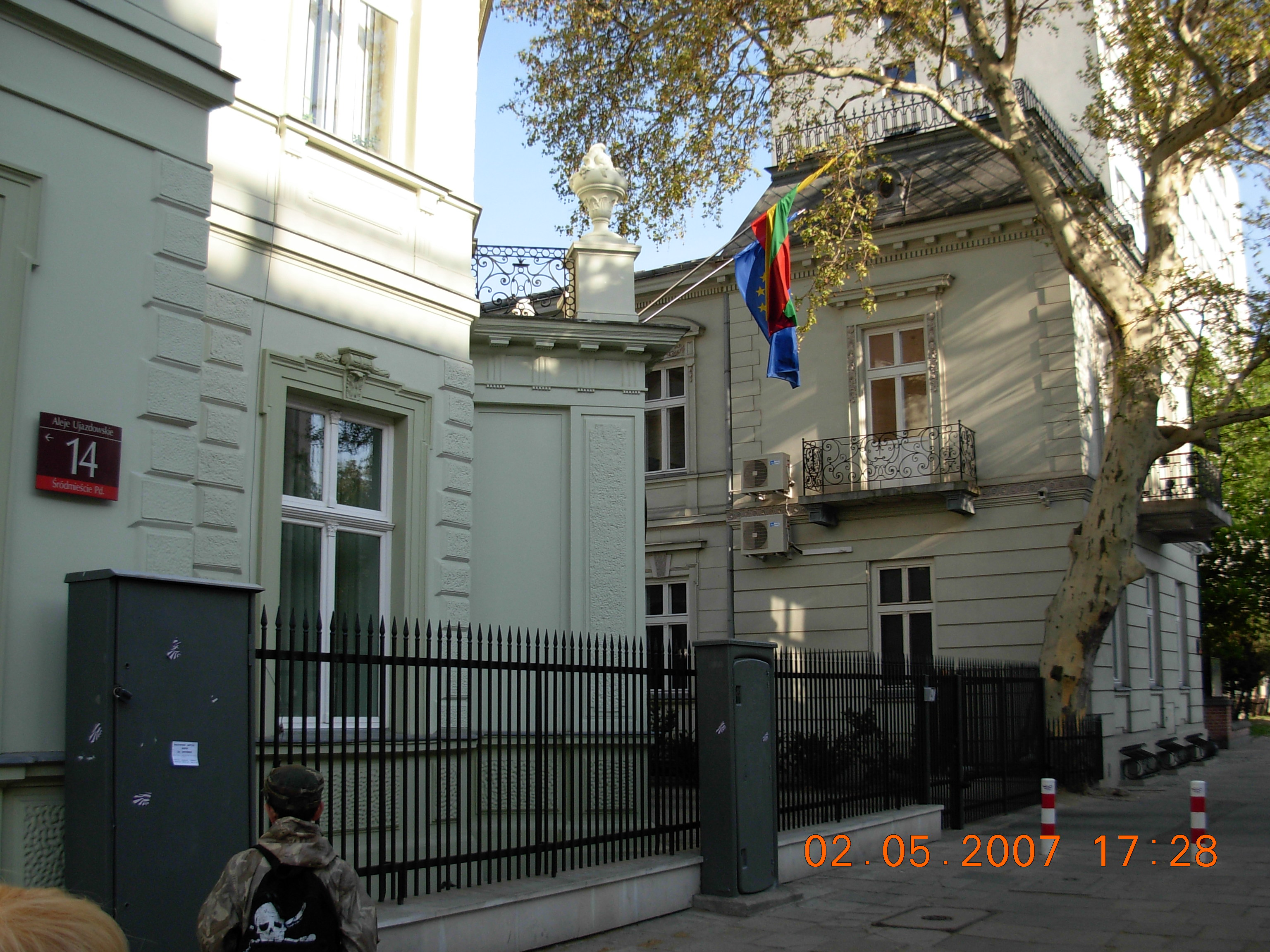 Lithuanian Embassy in Warsaw